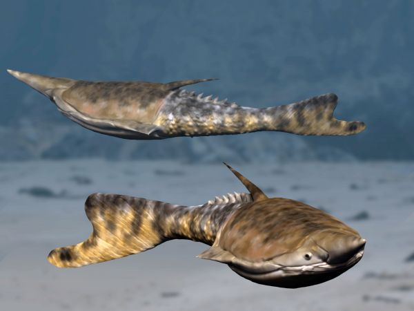 Larnovaspis stensioei (formerly Pteraspis)